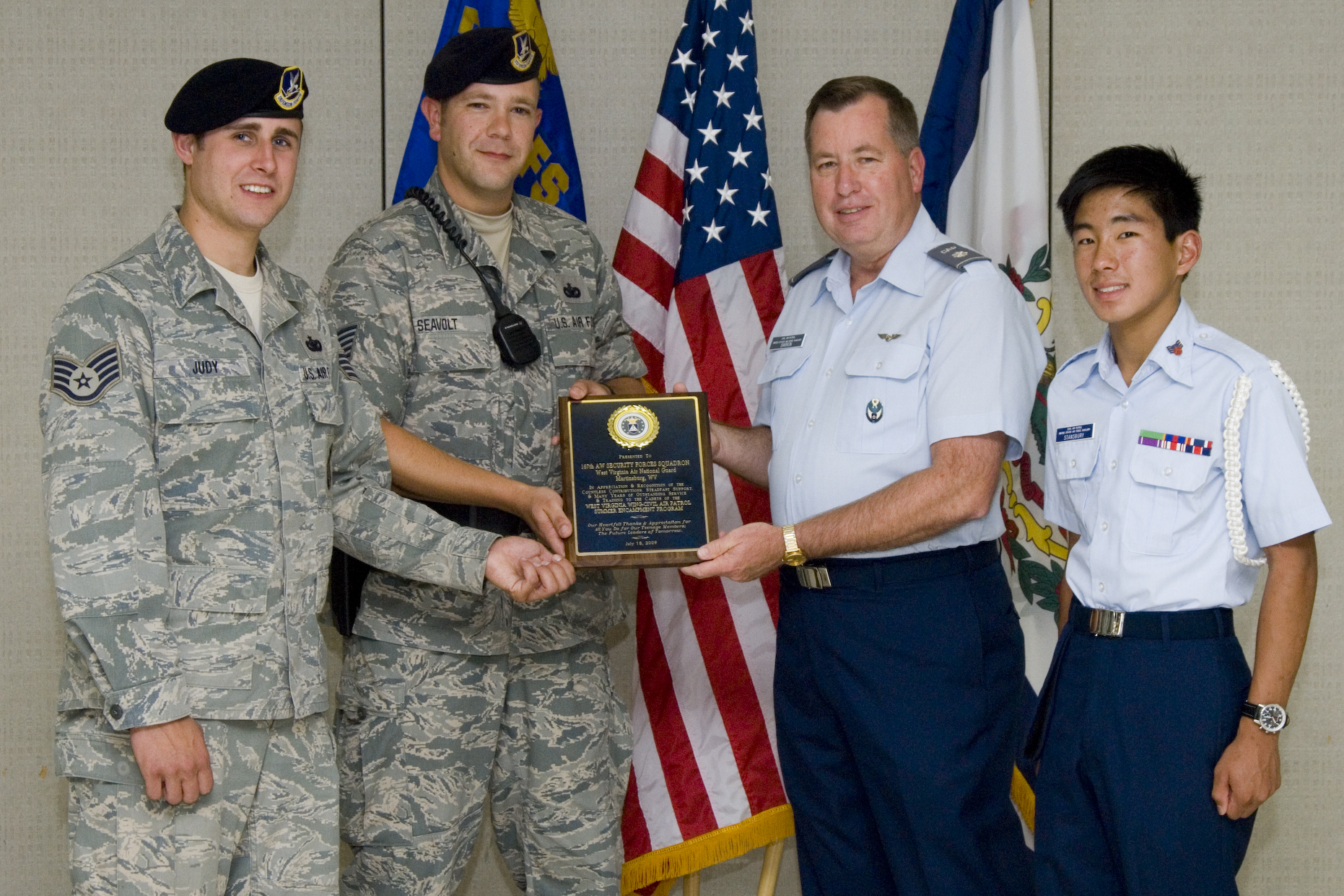 Civil Air Patrol Lt Col Dennis Barron and Cadet Senior Airman Ty Stansbury present SSgt Patrick Judy and TSgt Michael Seavolt, 167th Security Forces Squadron, a plaque of appreciation at the 167th Airlift Wing on August 27, 2009. SSgt Judy and TSgt Seavolt assisted with firearms training at the Civil Air Patrol Summer Encampment at Camp Dawson, WV. (U.S. Air Force Photo by Emily Beightol-Deyerle)